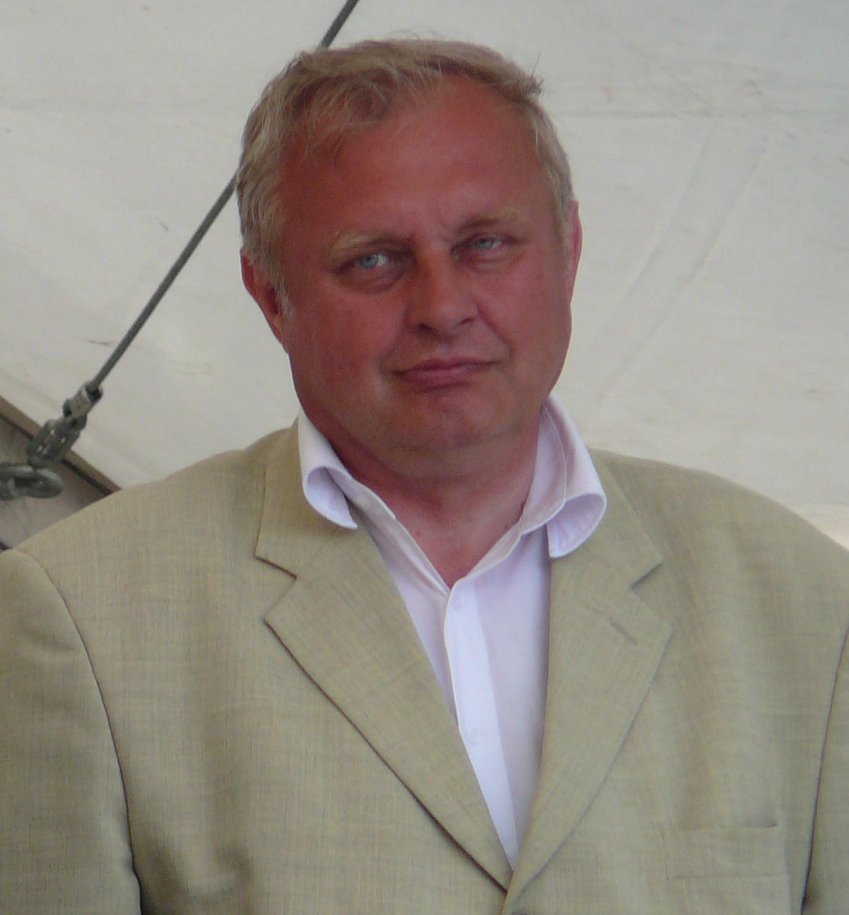 Miloslav Ransdorf, European Parliament election campaing of Komunistická strana Čech a Moravy (2009), Moravské náměstí, Brno